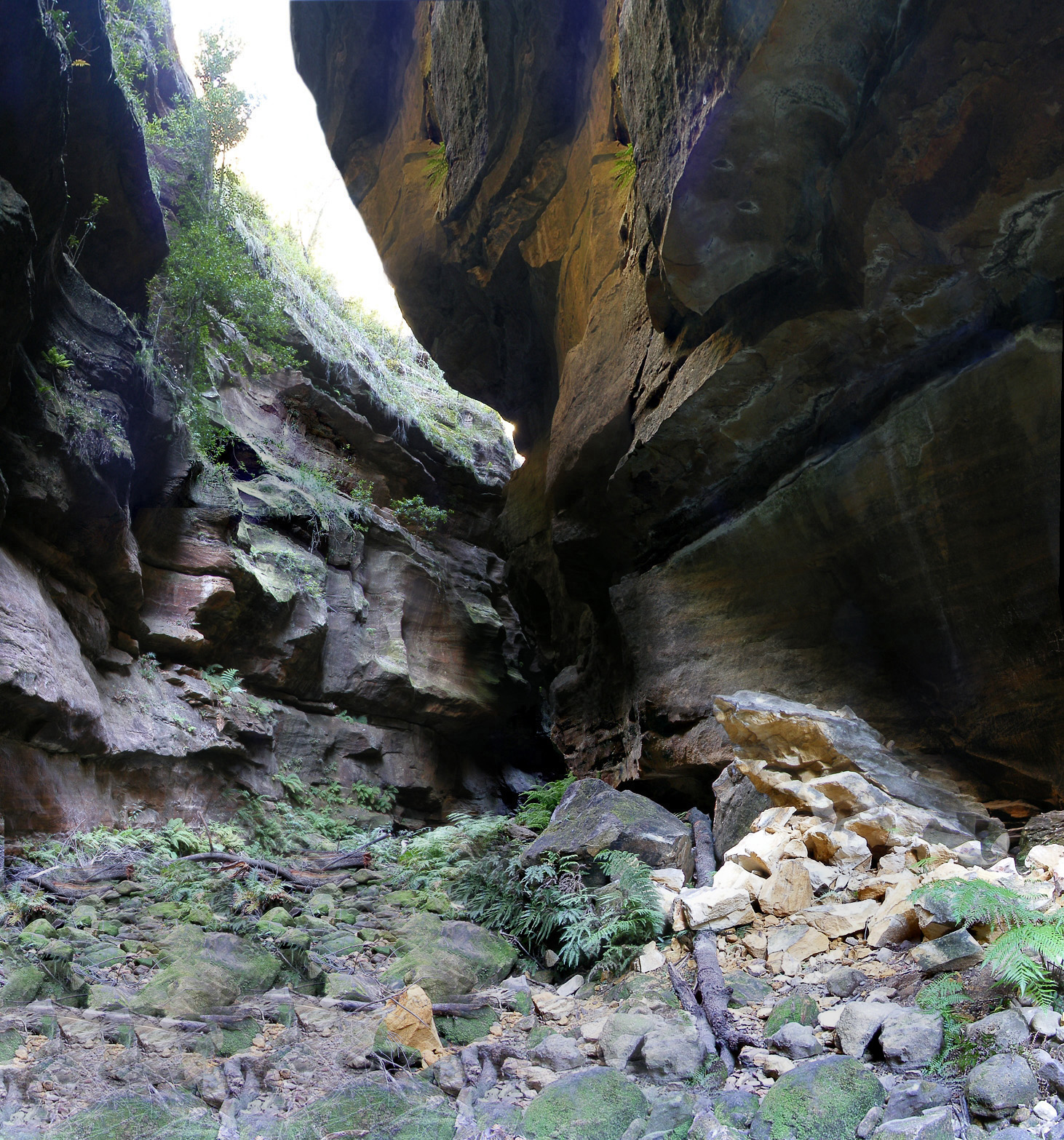 This was taken along the grand canyon walk in the blue mountains commencing at the Evans look out.